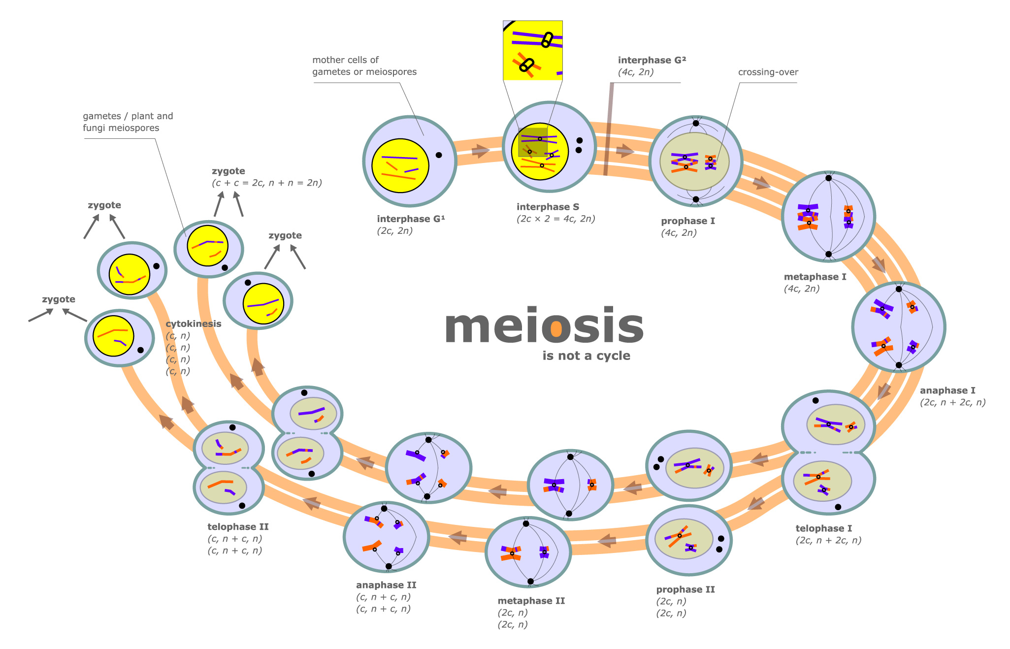 Meiosis is a process in which a diploid cell divides itself into 4 haploid cells. At the end of Meiosis there are four genetically different cells. The diagram shows Meiosis as a non-cyclic process.